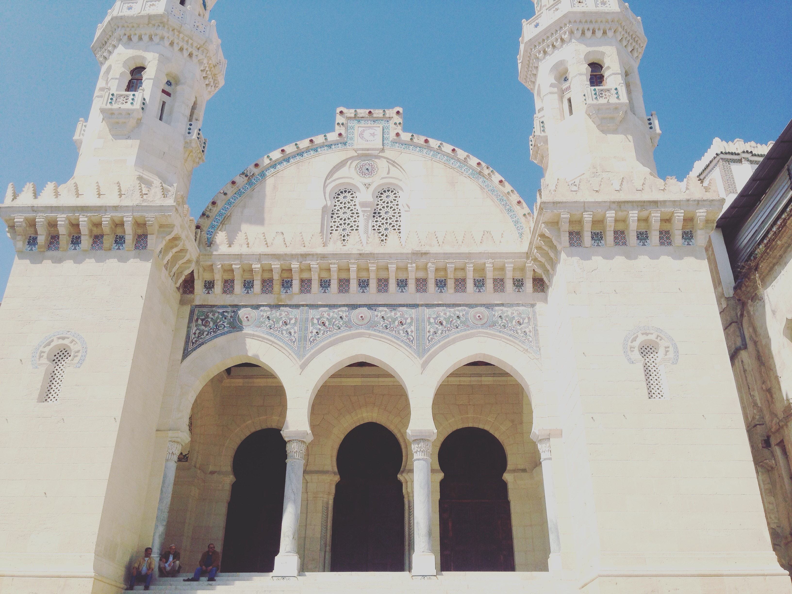 kechaoua mosque ,algiers,algeria.